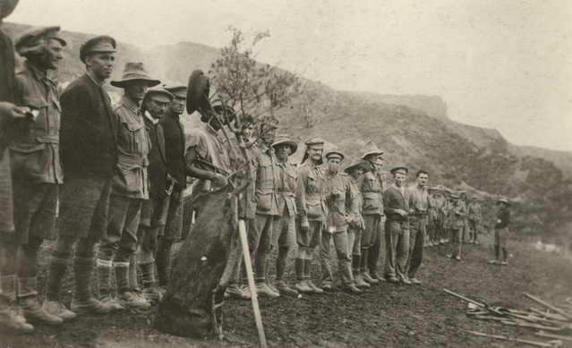 Parade of soldiers from the 1st Light Horse Regiment following their failed feint attack at Pope's Hill, Gallipoli, on 7 August 1915. Of the 200 men that took part, only about 40 survived. Caption reference: Bou, Jean (2010). Light Horse: A History of Australia's Mounted Army, p. 147